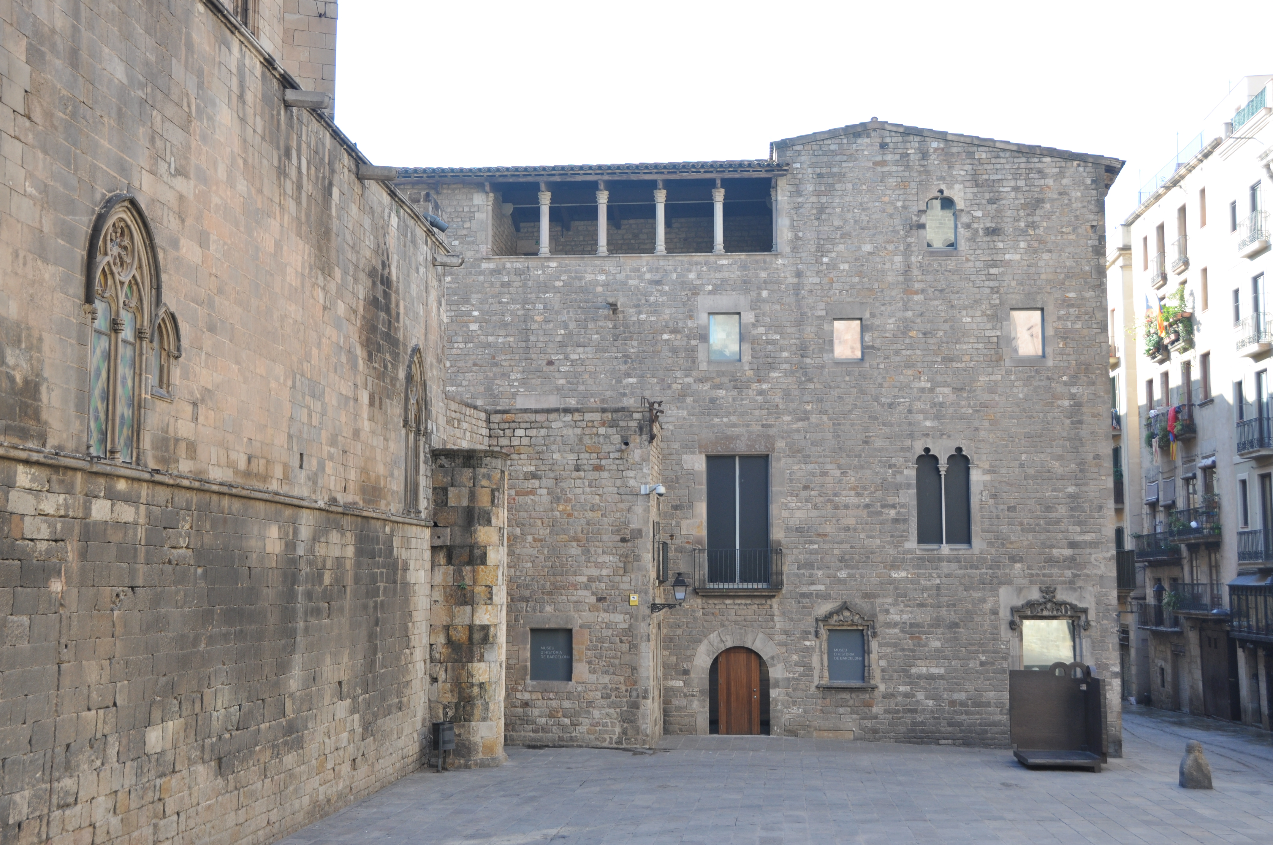 Padellas's House (Barcelona City History Museum) Facade at Plaça del Rei. Eduardo Chillida sculpture